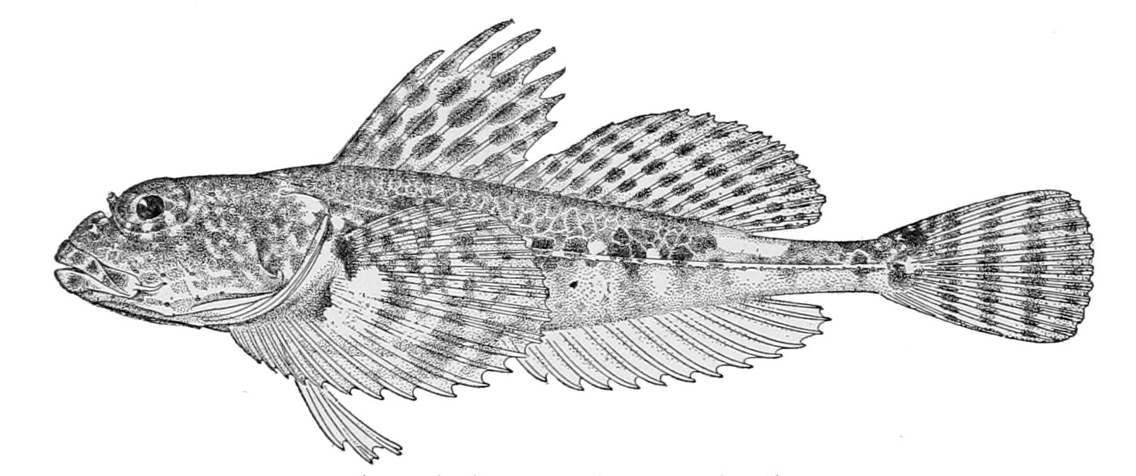 Artediellus camchaticus